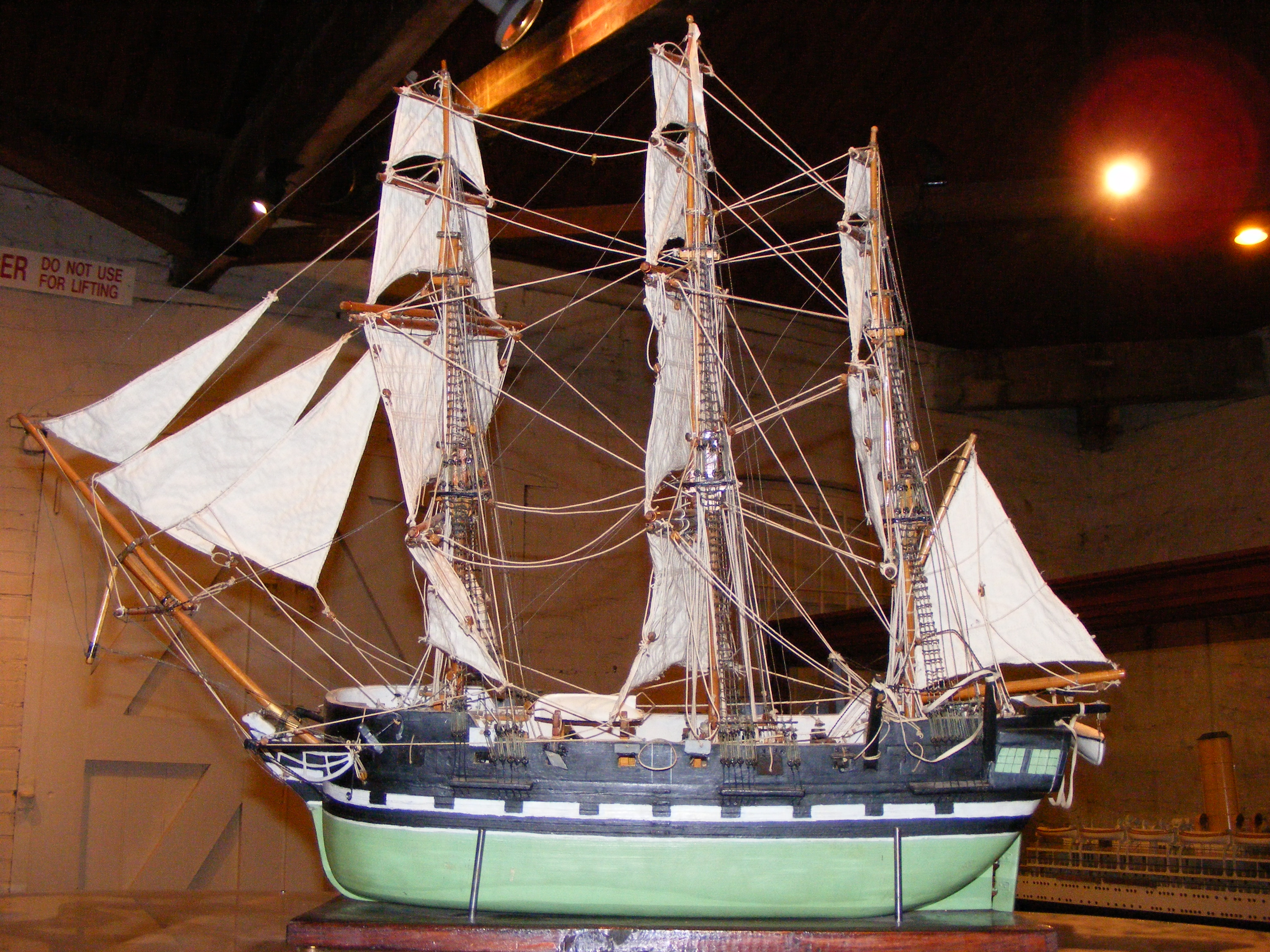 Model of the 1813 build HMS buffalo - used to take the first colonists to Adelaide, South Australia Model on display at the Maritime museum, Port Adelaide, South Australia. Made by 12 yr old Keynes Dawe in 1936 as part of a Centenary competition